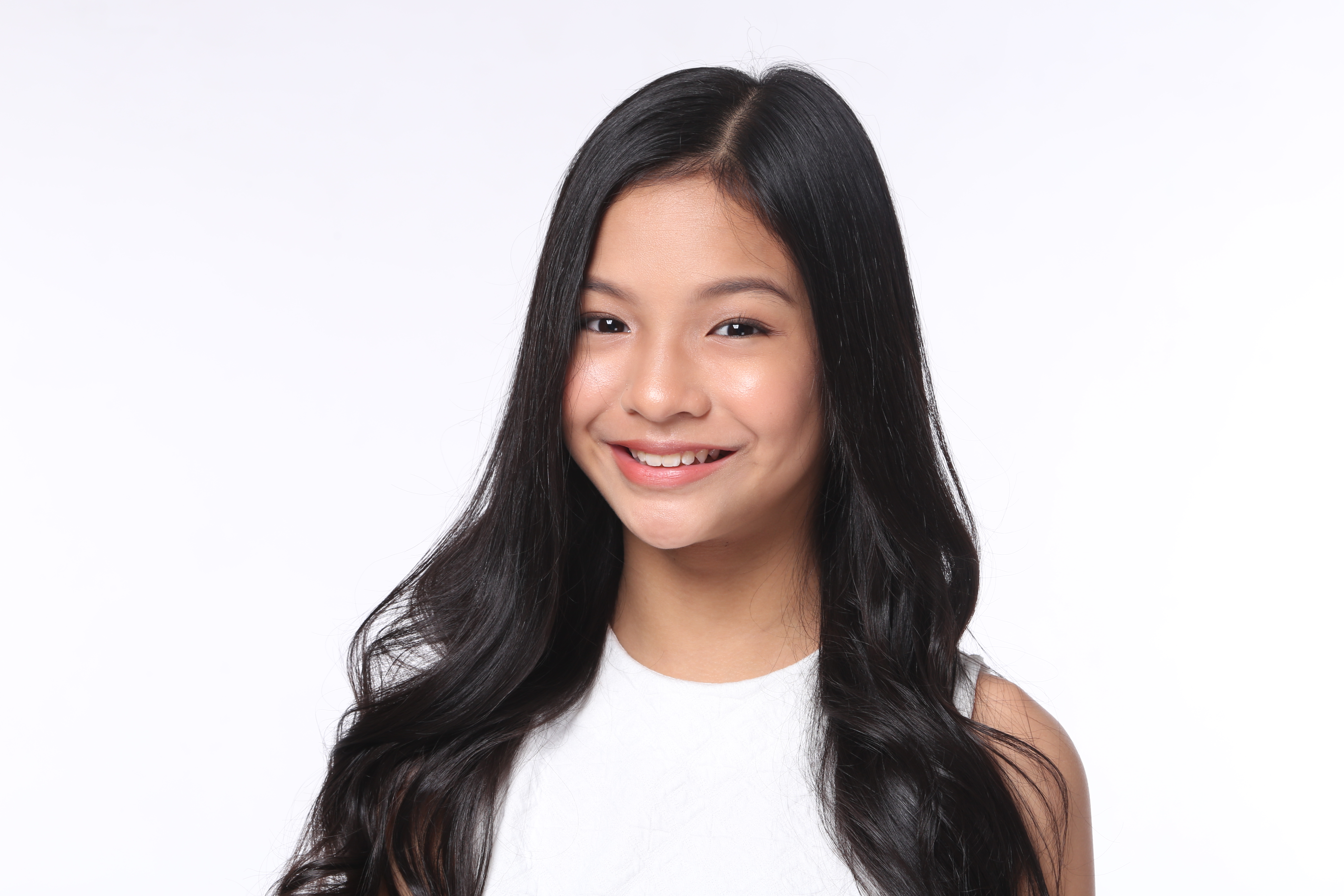 Althea Ablan 2016